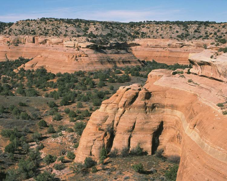 View across the Black Ridge Canyons Wilderness, from near the Pollock Bench trailhead.